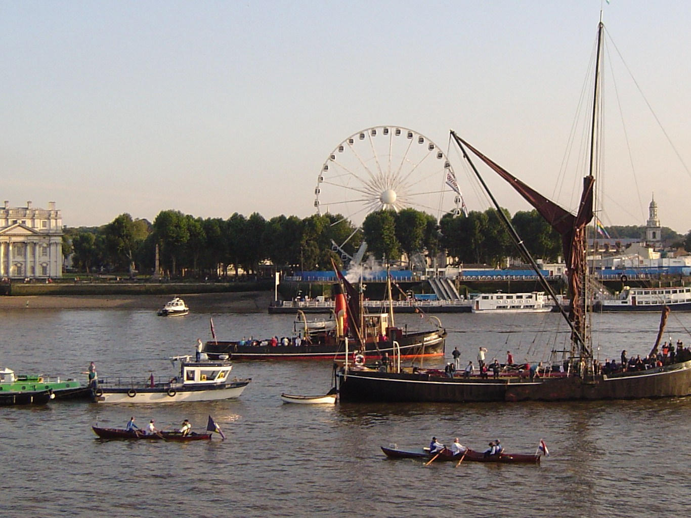 Great River Race River Thames - Dutch skiff crosses the finish